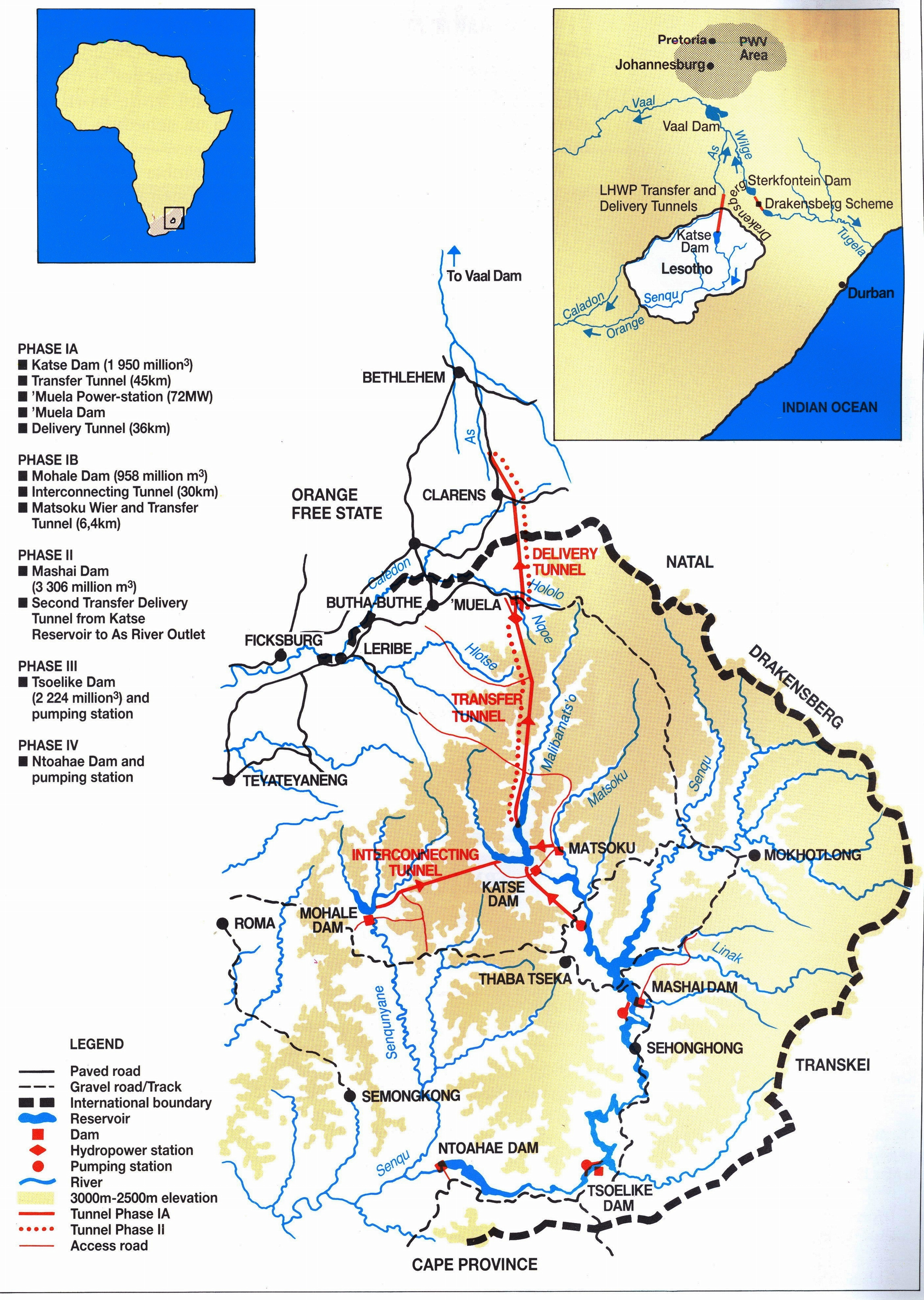 Map of the Lesotho Highlands Water Project — a major Water supply and Hydroelectric power project in Lesotho, southern Africa. The project, developed by Lesotho and South Africa, includes dams, reservoirs, aqueduct tunnels, and Hydroelectric power plants.